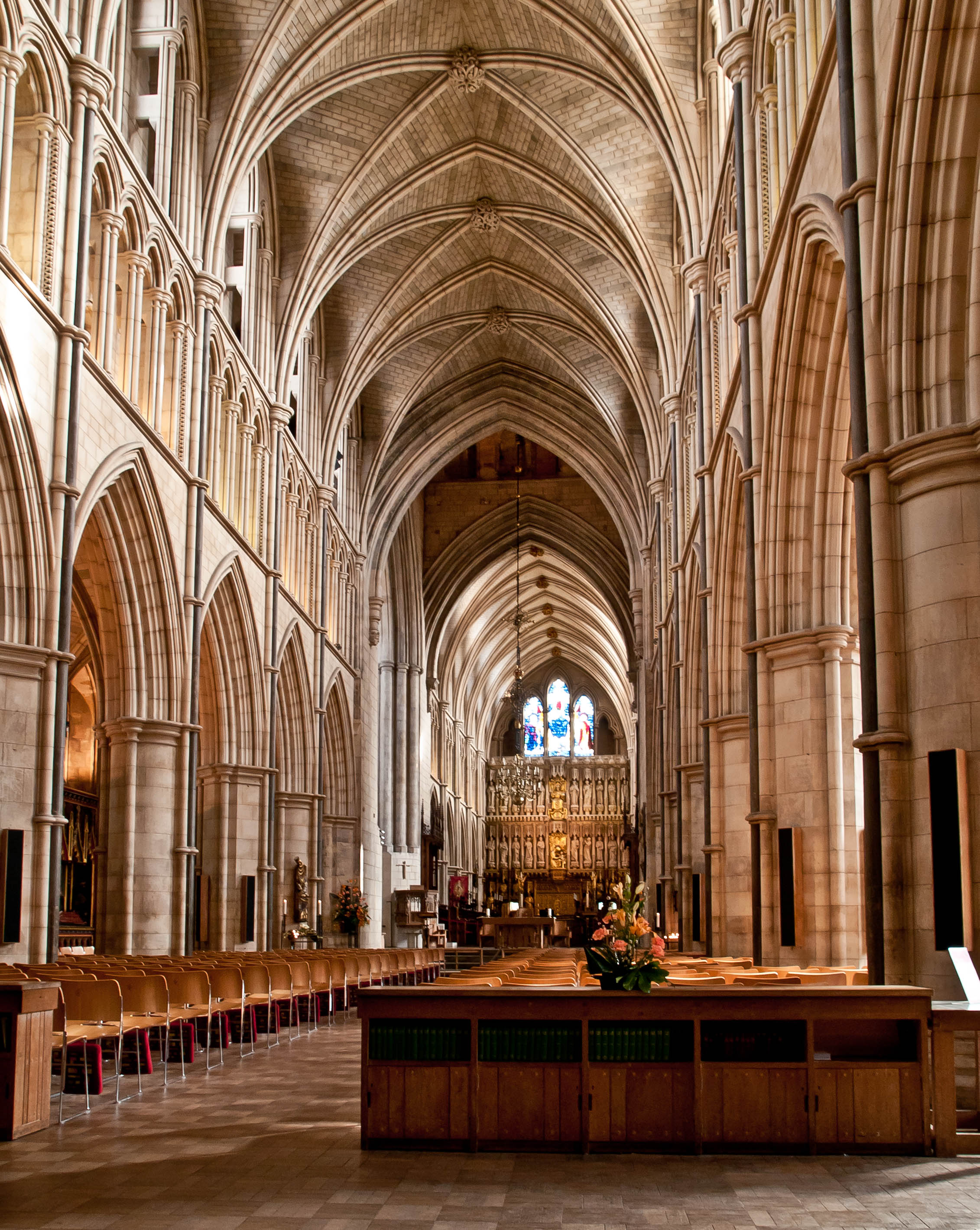 Southwark Cathedral or The Cathedral and Collegiate Church of St Saviour and St Mary Overie, Southwark